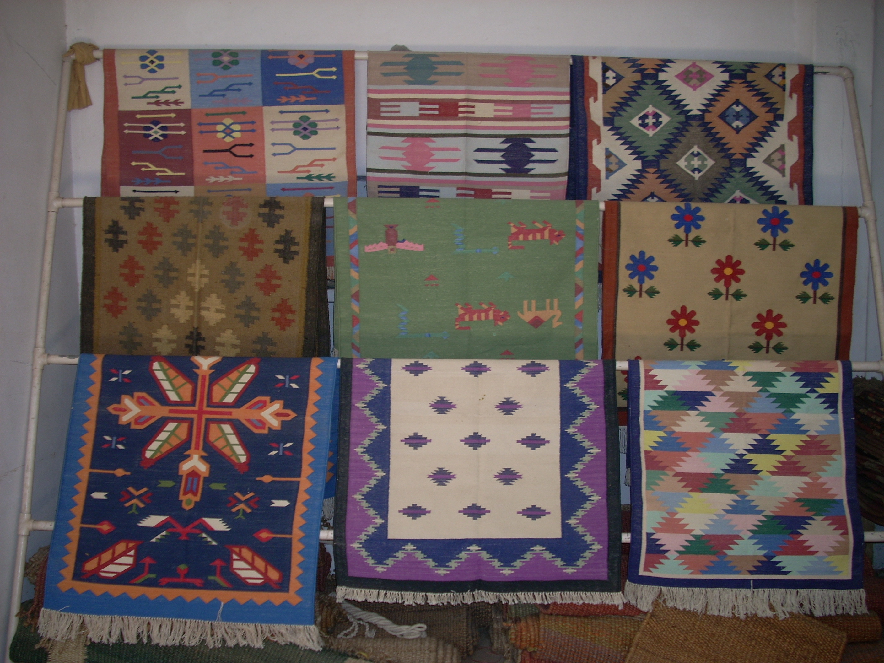 salawas durries